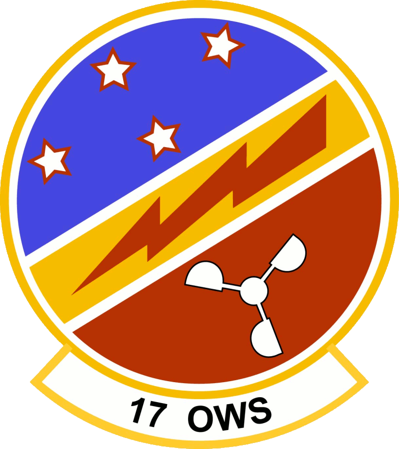 Emblem of the 17th Operational Weather Squadron, a squadron of the United States Air Force